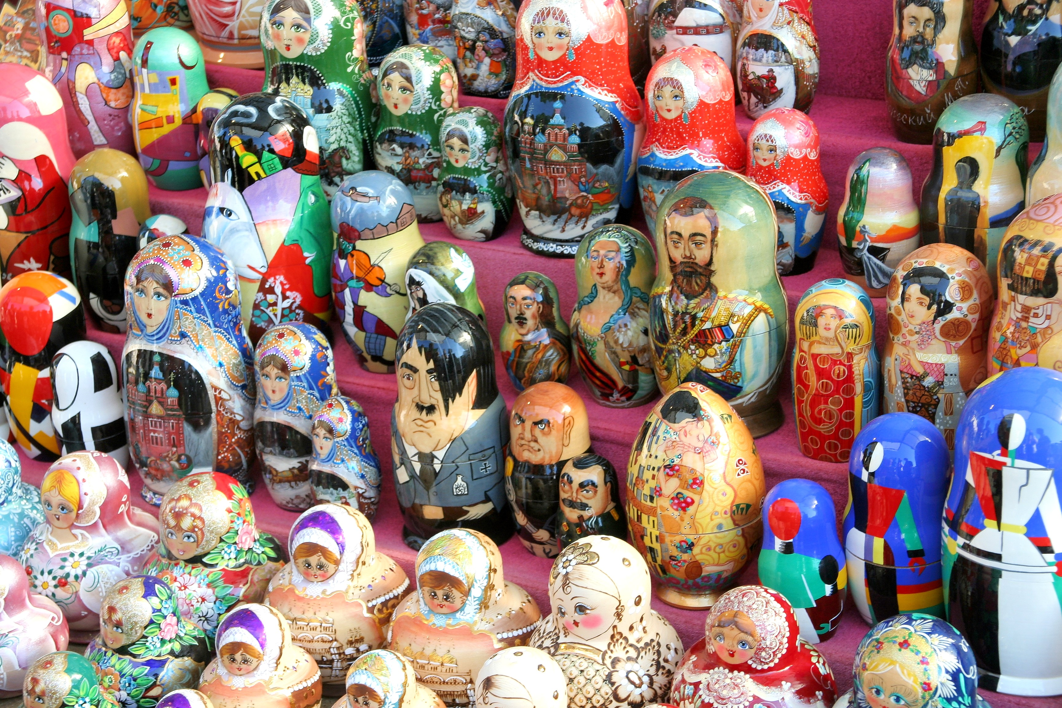 Many different matryoshka dolls, including kings, dictators and modern painting ones.